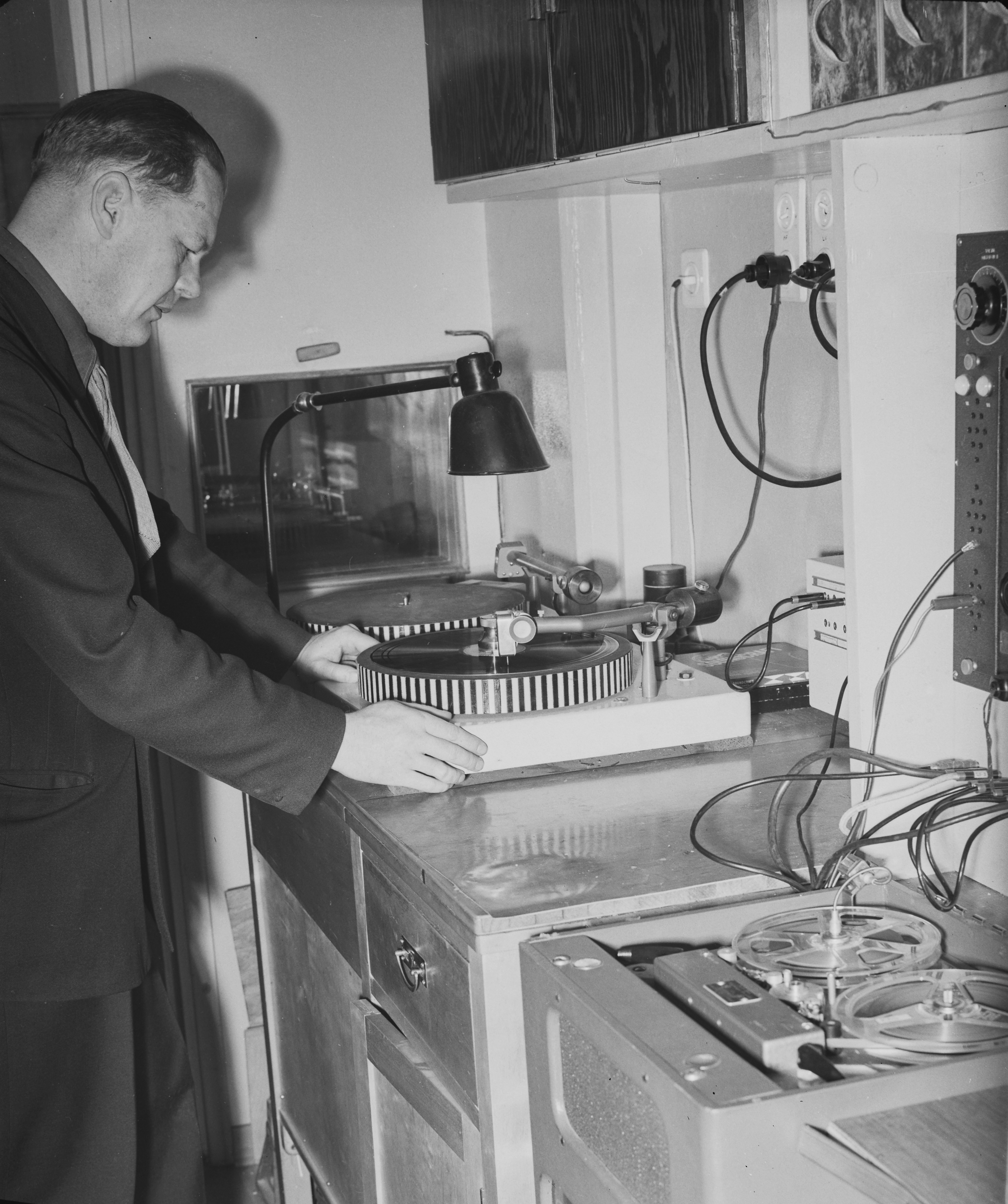 Photograph of the Finnish professor of folklore studies Jouko Hautala (1910–1983) looking at a recording machine.